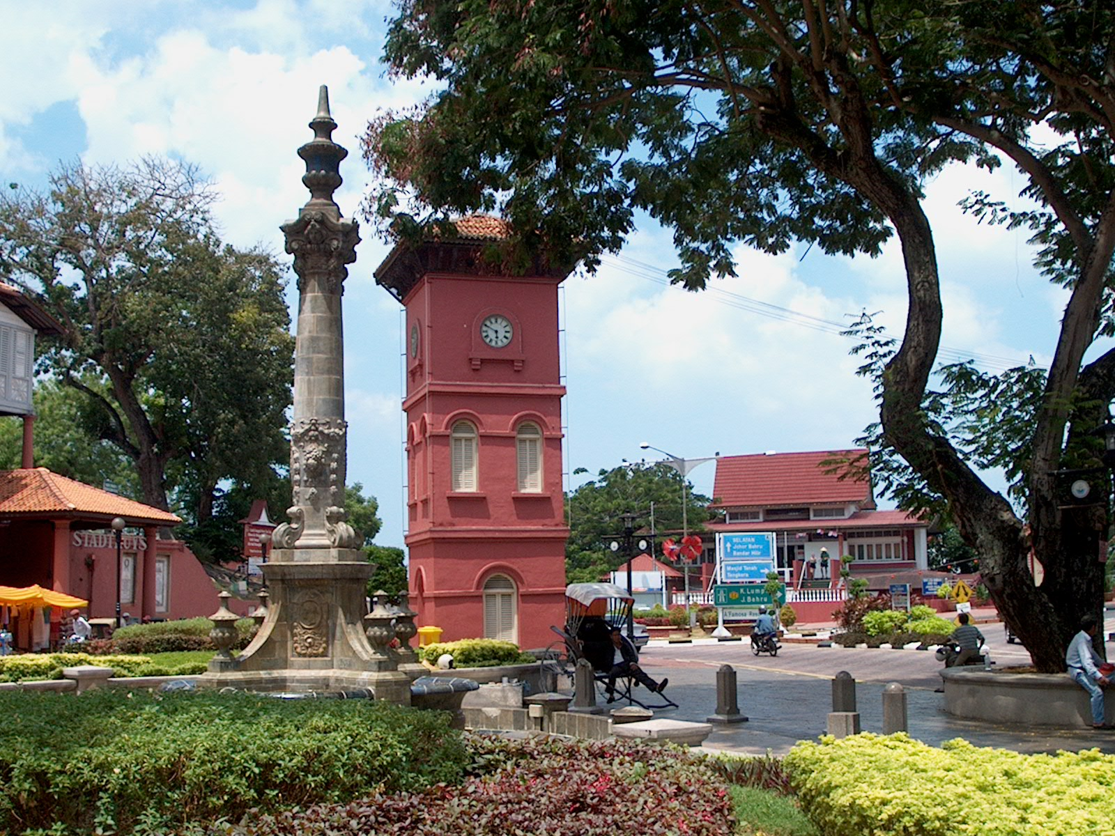 Queen Victoria memorial in town square, Melaka, Malaysia